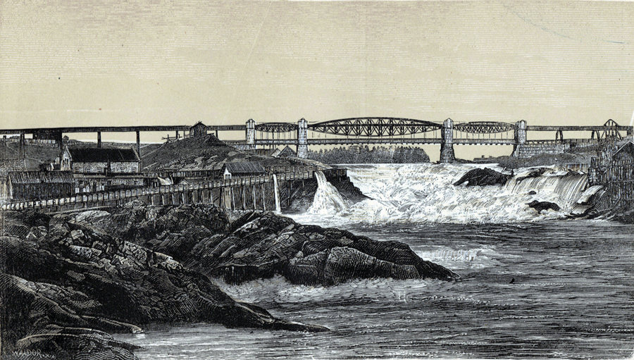 Sarpsfossen, Norway.